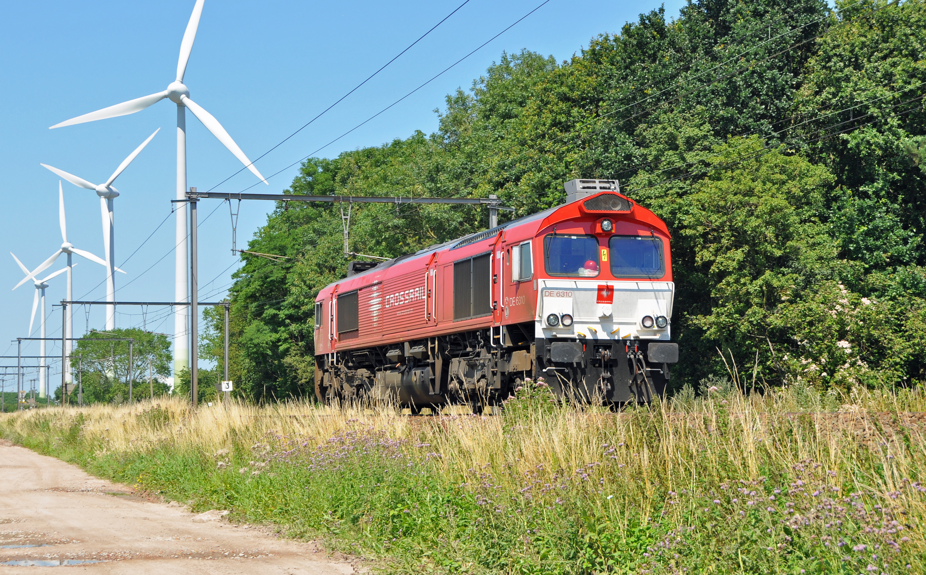 Locomotive DE 6310 (Type JT42cwrm, or Class 66), named "Griet", of private rail operator Crossrail Benelux, near the Blauwe Toren junction in Bruges, Belgium